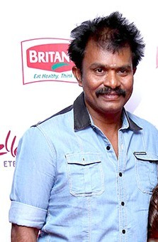 Director Hari at the 62nd Britannia Filmfare South Awards 2014